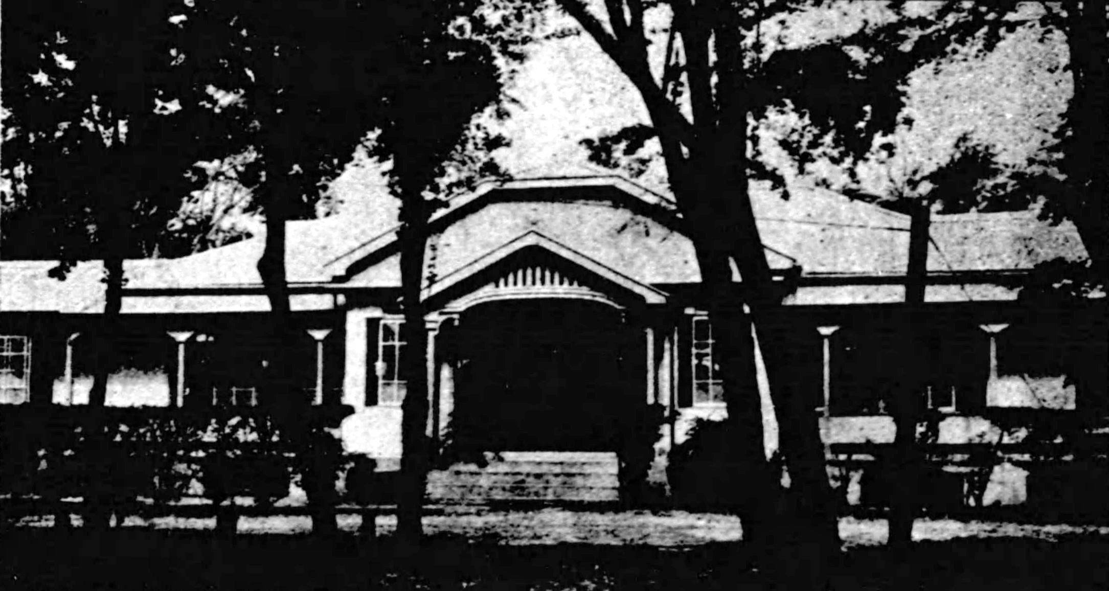 The main office of South Seas Development Company (Nan'yo Kohatsu Kabushikigaisha, NKK) in Saipan.